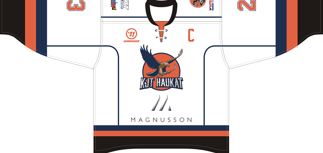 Away jersey of ice hockey team KJT Haukat